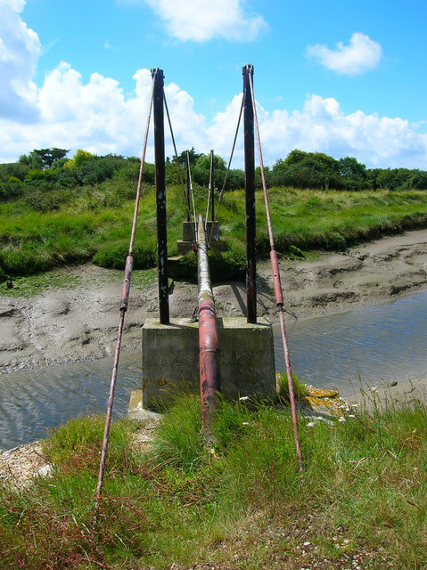 Former Railway Bridge. One of the only structures remaining from the Selsey Tramway which ran from Chichester to Selsey between 1897-1935 (see 501580 for the full story). Now just carrying a pipe across Ferry Channel and certainly not advisable to try and walk over it.